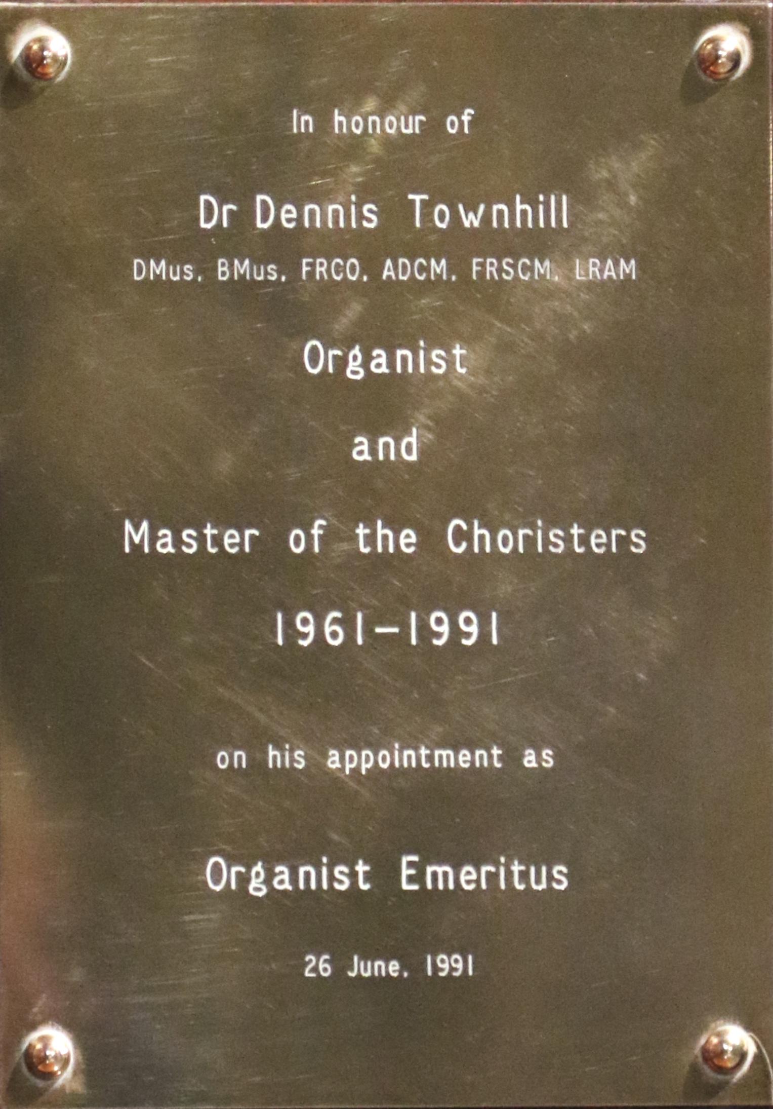 Organist of St Mary's Cathedral, Edinburgh 1961 to 1991